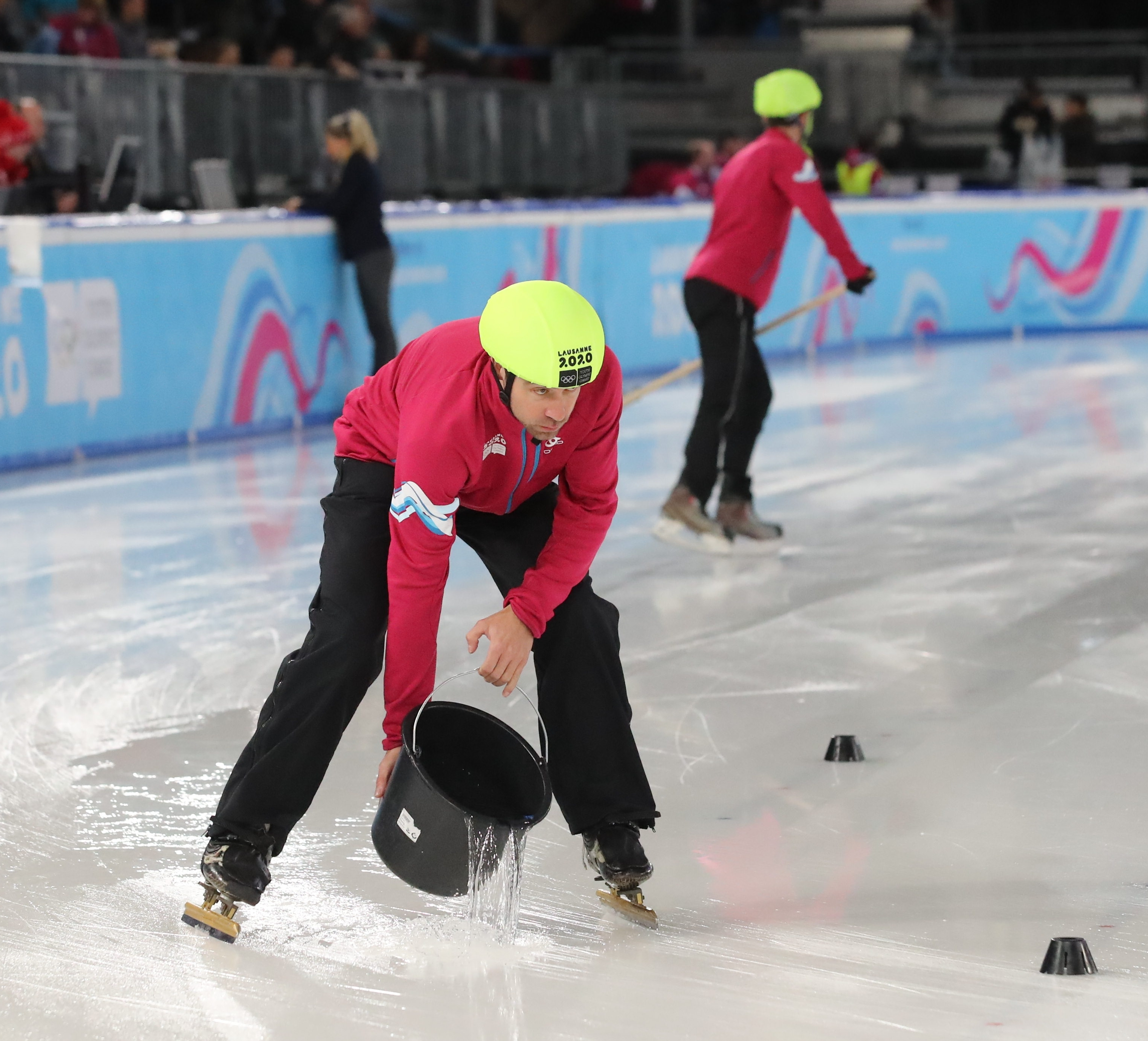 Impressions of the Short Track Speed Skating – Mixed NOC Team Relay at the 2020 Winter Youth Olympics in Lausanne on 22 January 2020.